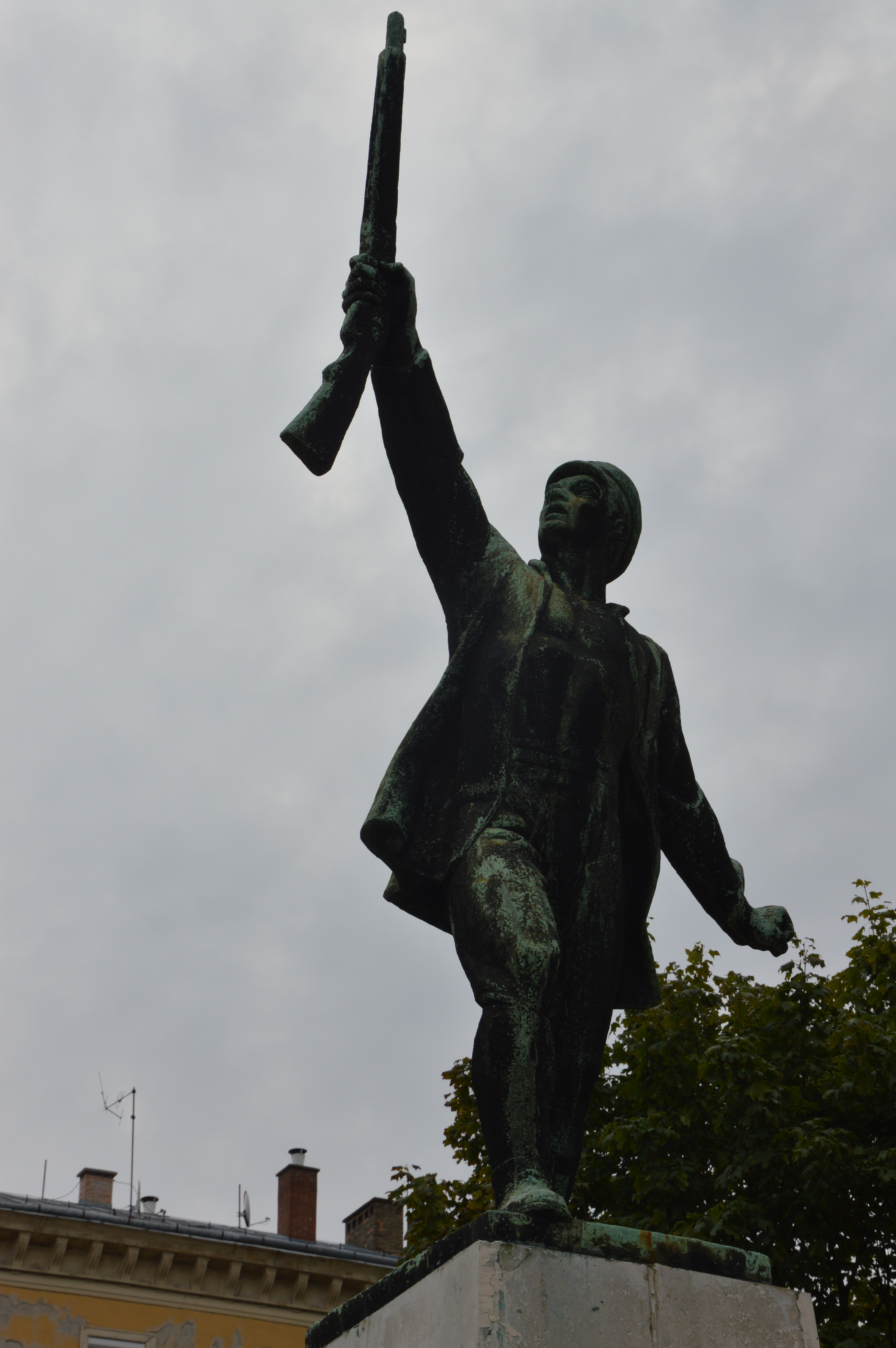 Warrior of the Hungarian Red Army (1982) by Tamás Gyenes